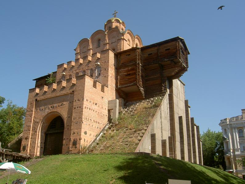 Golden gate